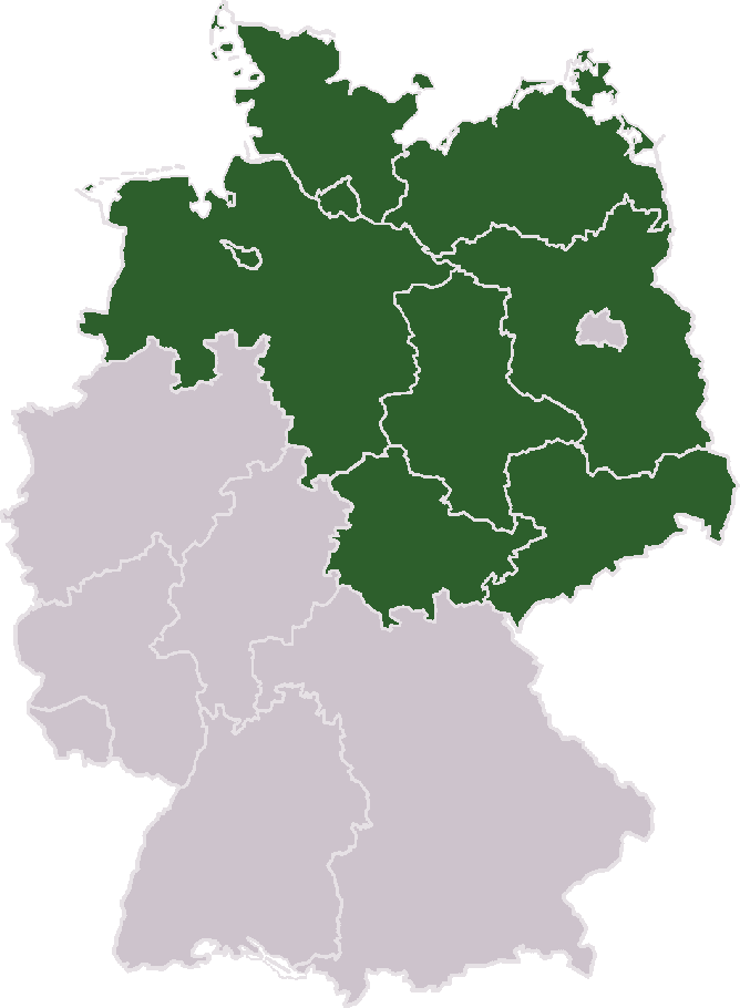 German states, which celebrates Reformation Day as a public holiday.